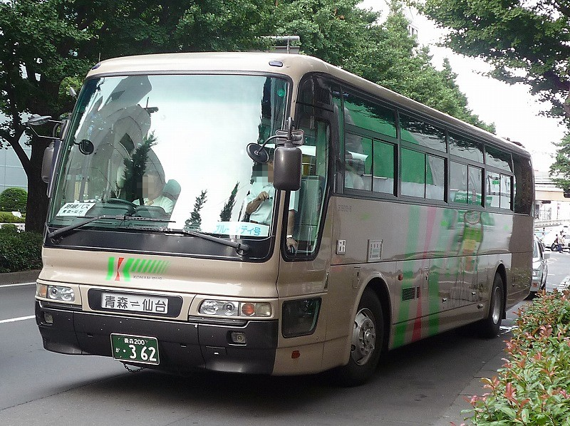 Konan bus Highwaybus "Bluecity"(Sendai-Aomori)